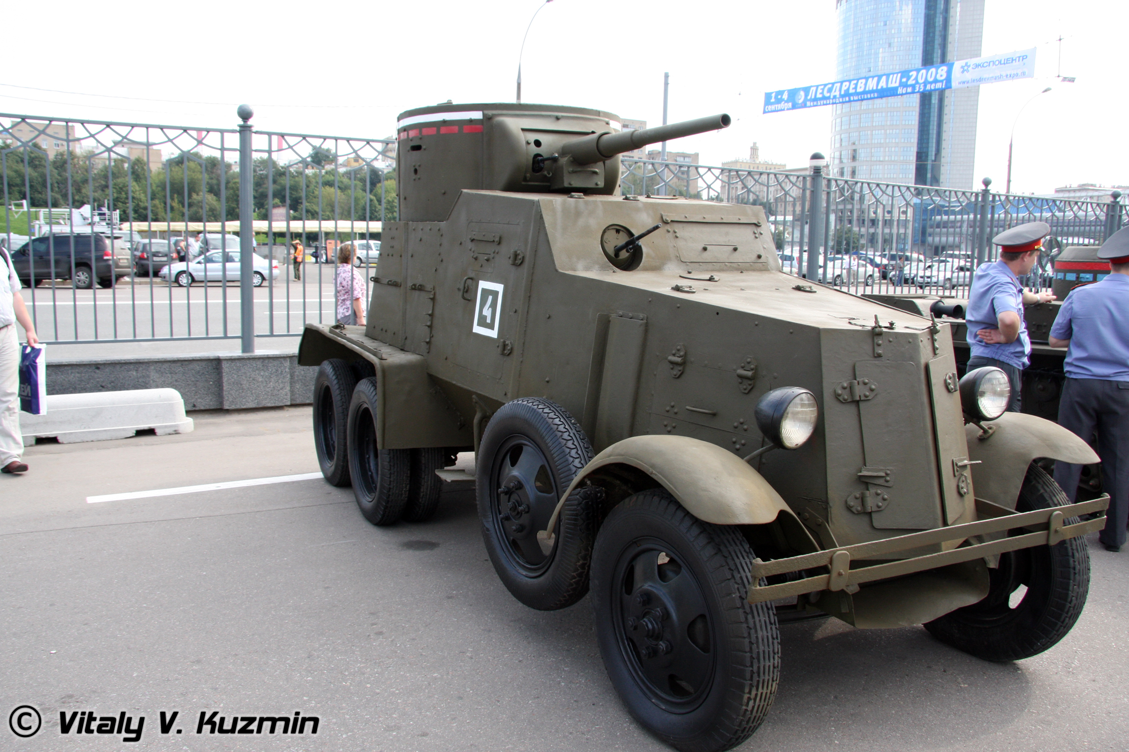 BA-6 armored vehicle - IDELF-2008